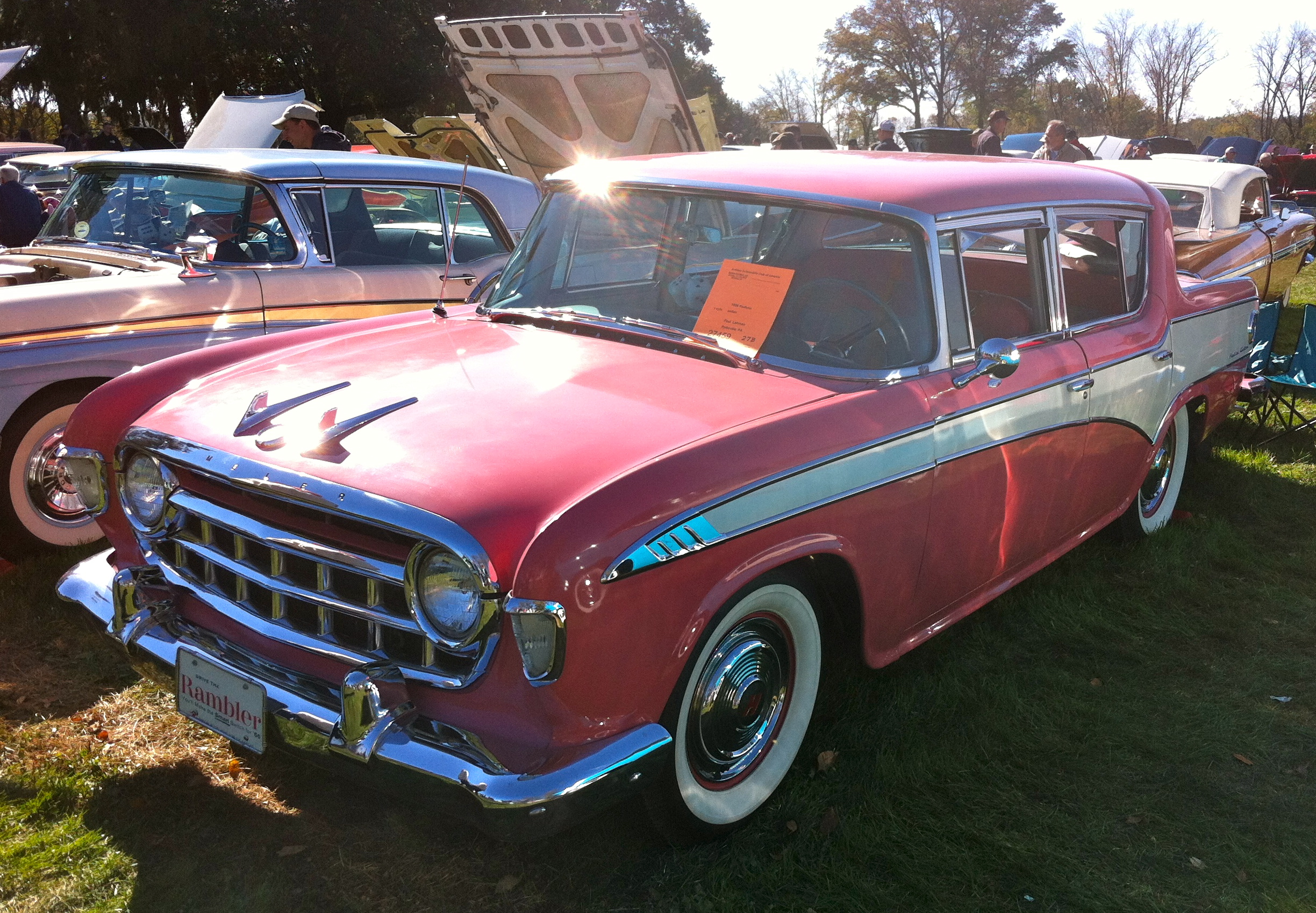 1956 Hudson Rambler 4-door sedan, "Custom" trim model - built by the American Motors Corporation (AMC). Front left side view. This four-door sedan features the popular two-tone exterior finish for the era, as well as the factory "Weather Eye" heating and air conditioning system. It has the "airliner" individually adjustable and reclining front seats that can be used as a bed. The "compact" 108-inch wheelbase Rambler line was marketed by both Hudson and Nash dealerships during the introductory 1956 model year. The cars were nearly identical, except for hubcaps with an 'H' in the center, as well as the Hudson logo hood emblem and the 'H' grille insert. Total production of 1956 Hudson Ramblers was 20,496 in three levels of trim in four-door station wagon and sedan body styles. Picture taken on the show field of the Antique Automobile Club of America (AACA) 2012 Hershey meet that is held every October in Pennsylvania.